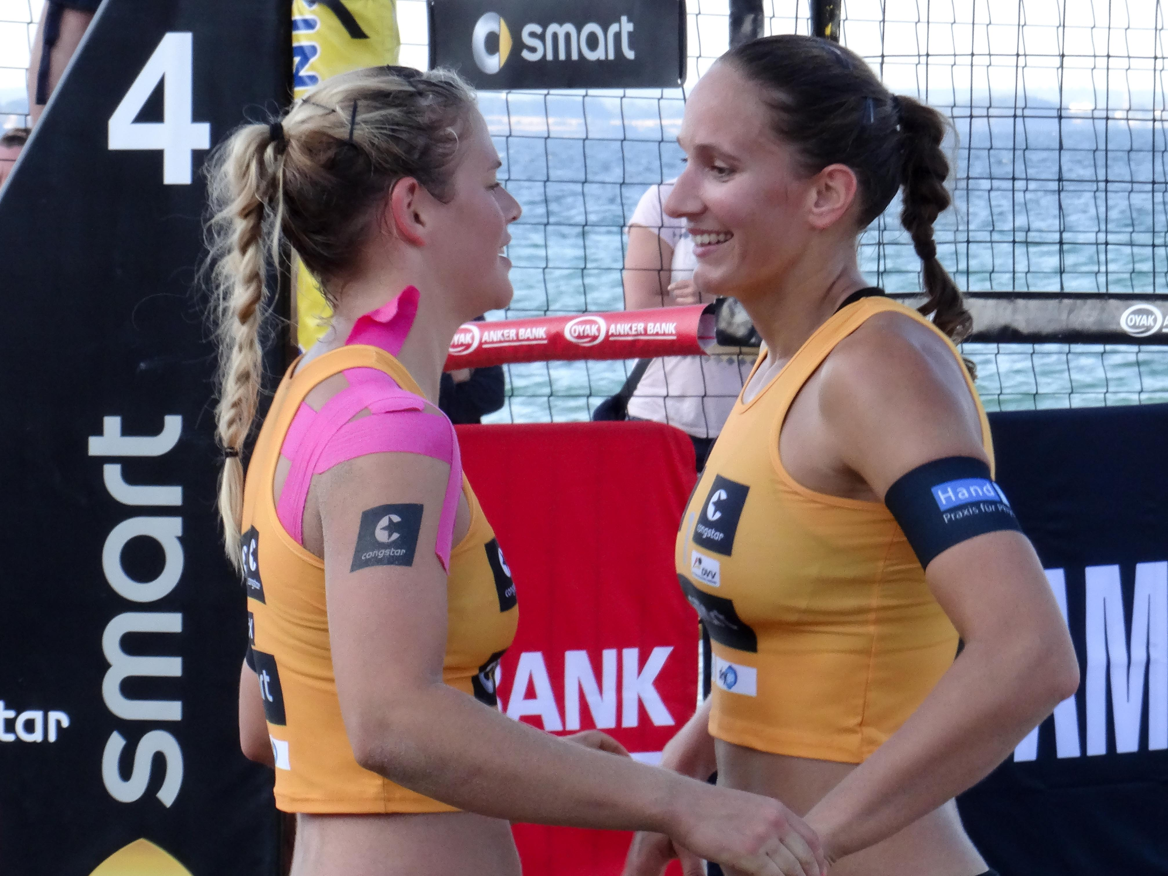 Cinja Tillmann, Katharina Schillerwein, Deutsche Meisterschaft 2014, Timmendorfer Strand